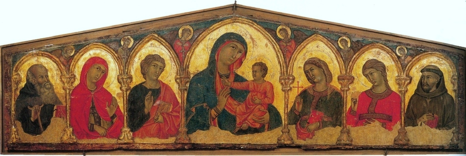 Memmo di Filippuccio. Madonna and Child with Saints. End of 13th century, Oristano, Arcivescovado